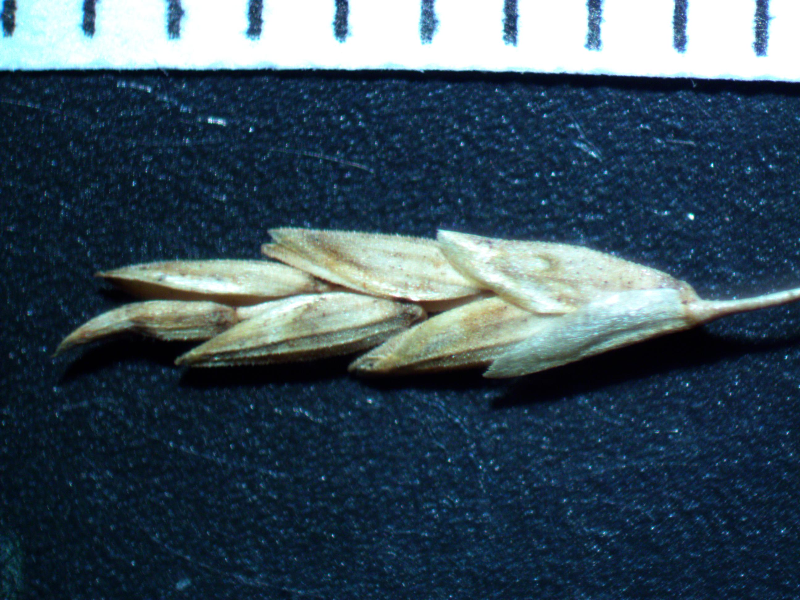 Spikelets are 5-10 mm long and 4-8-flowered. Lower glume is 2 mm long and lemmas are 2-3 mm long.